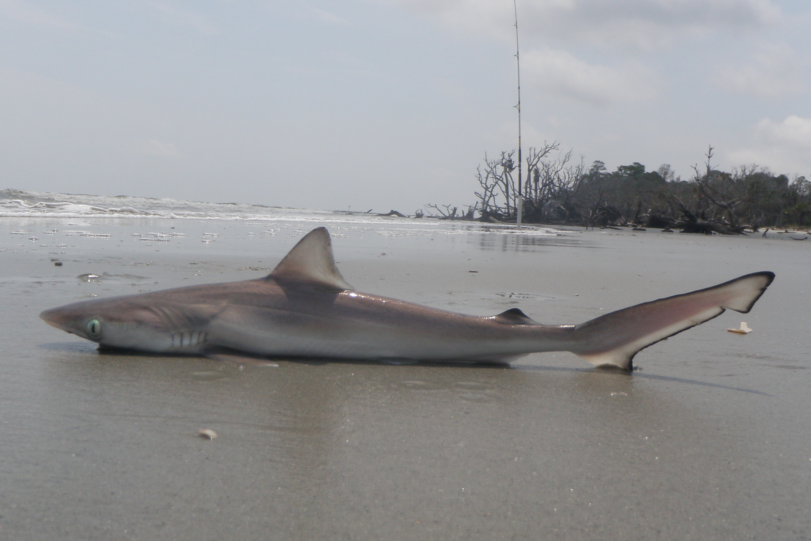 Atlantic sharpnose shark (Rhizoprionodon terraenovae) at Hunting Island State Park in South Carolina.